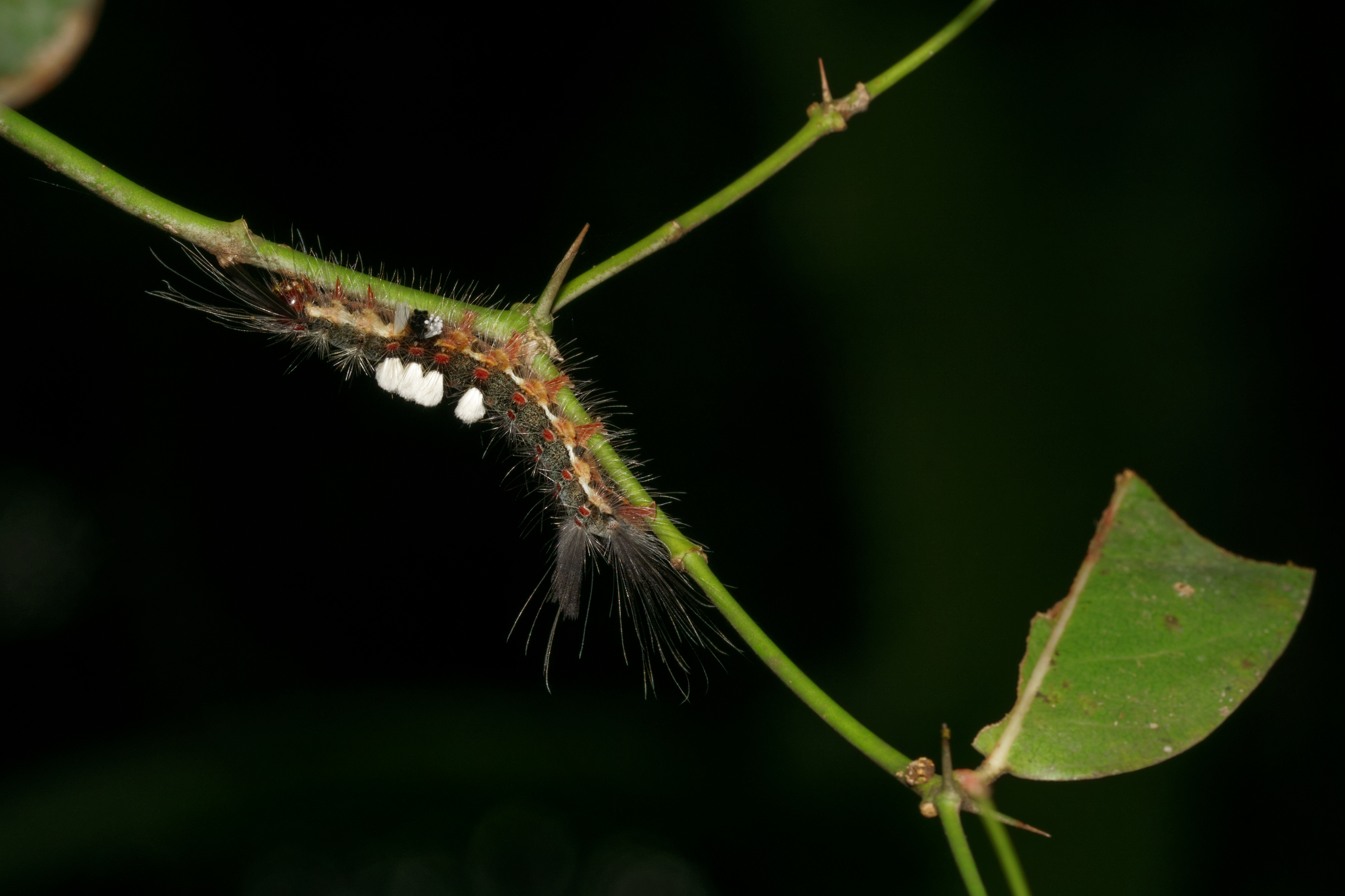 Orgyia is a genus of tussock moths of the Erebidae family. Here the host plant is Prunus species.